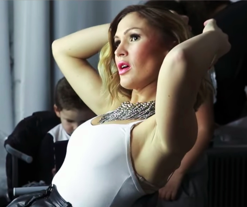 Screenshot of video, Vitaa while promo photoshoot of "Vivre"